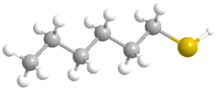 Ball-stick-model of hexanethiol. Drawn with ChemBio3D Ultra 12.0